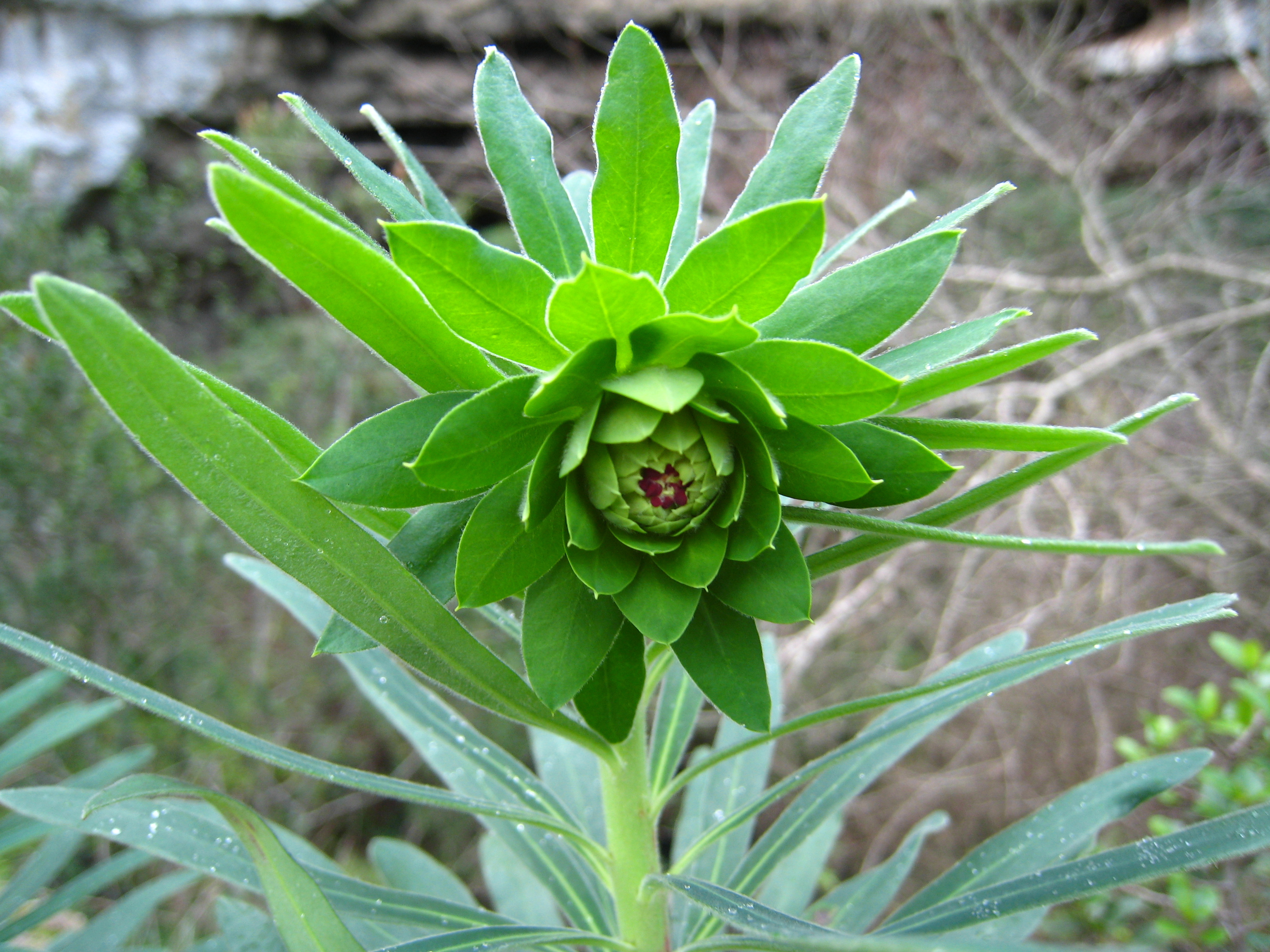 Flower